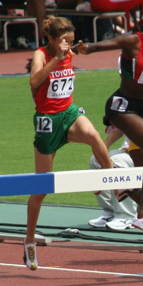 World Athletics Championships 2007 in Osaka - Women's 3000 meter steeplechase 3rd heat. Hanane Ouhaddou (672)